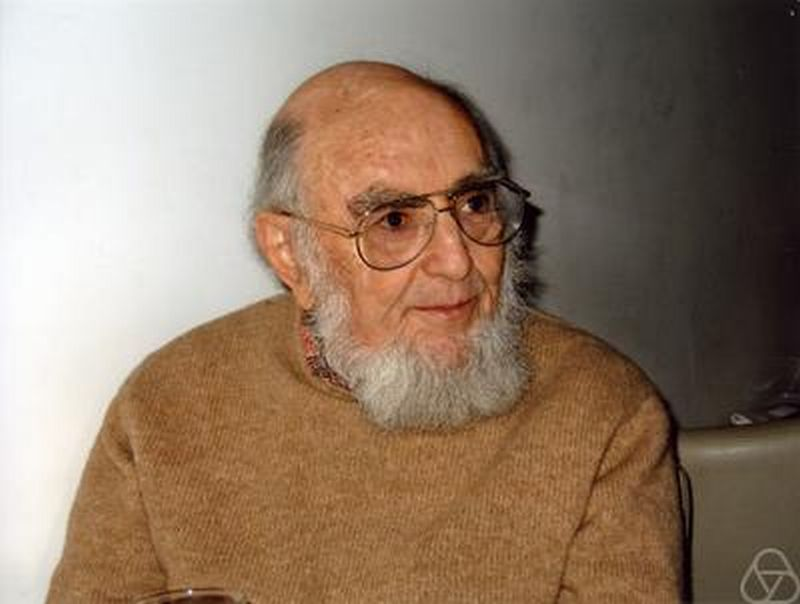 Anatole Beck, London School of Economics 2008